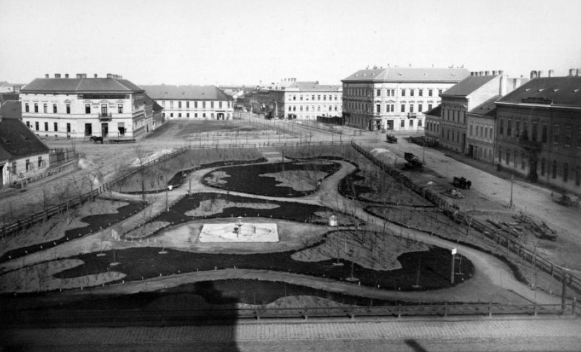 According to Tóth, Ferenc, ed. (2000). "Szeged". Csongrád megye építészeti emlékei [Architectural monuments of Csongrád County (in Hungarian). Szeged, Hungary: Csongrád Megyei Önkormányzat. ISBN 978-9-637-19328-6] the photograph was taken by Lázár Letzter (1832-1913?) in 1883. (Letzter formed a partnership with Lipus Lauscher, which operated as Letzter-Lauscher until WWI. After the war, Lauscher continued to photograph in his own name.)